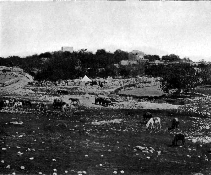 Bethany 1912